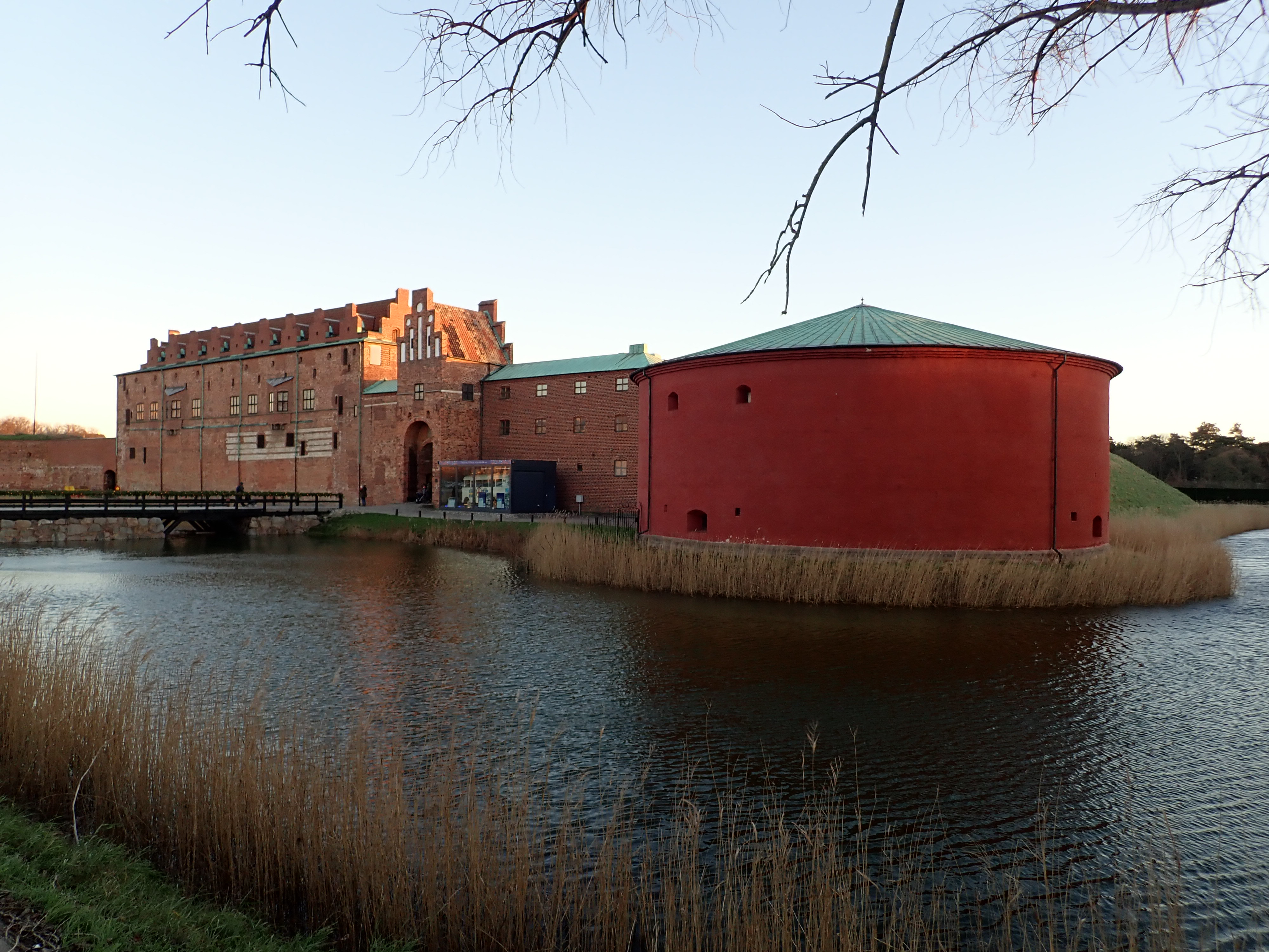 Malmö Art Museum and Malmö Castle, January 2, 2019